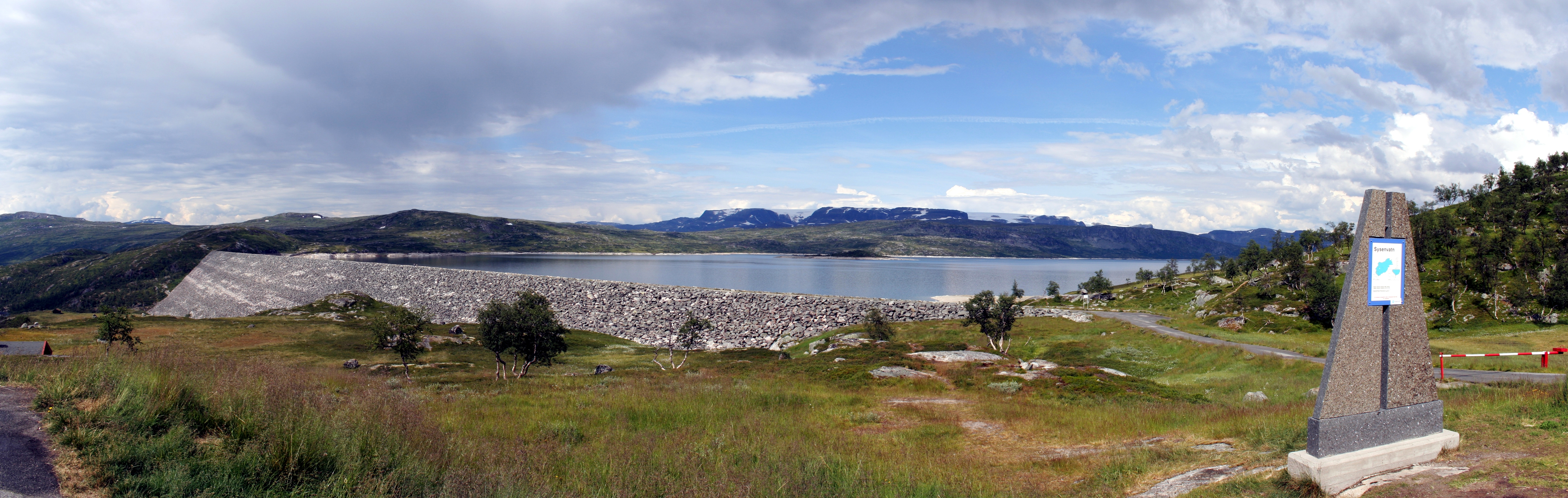 Sysendammen, Sysenvatn It's a rockfill dam in Eidfjord, Hardanger The picture is made of 5 tiles arranged with hugin into a cylindrical projection, H:130° V:39°